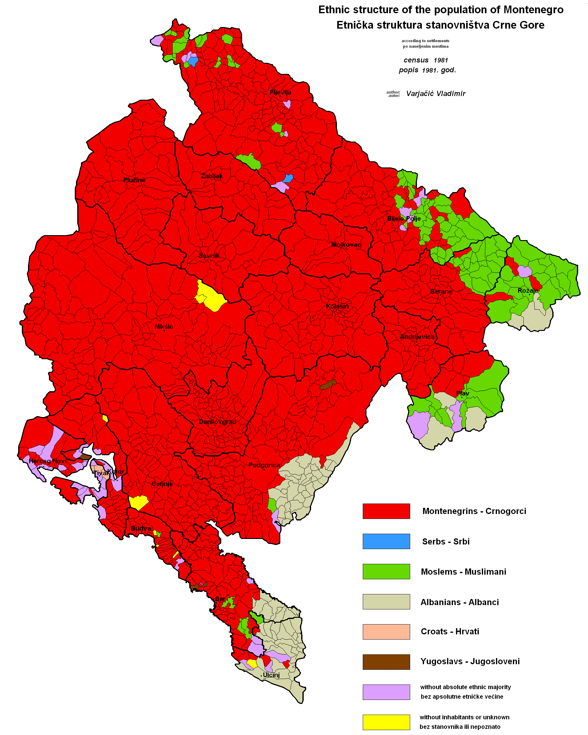 Ethnic map of Montenegro according to the 1981 census.